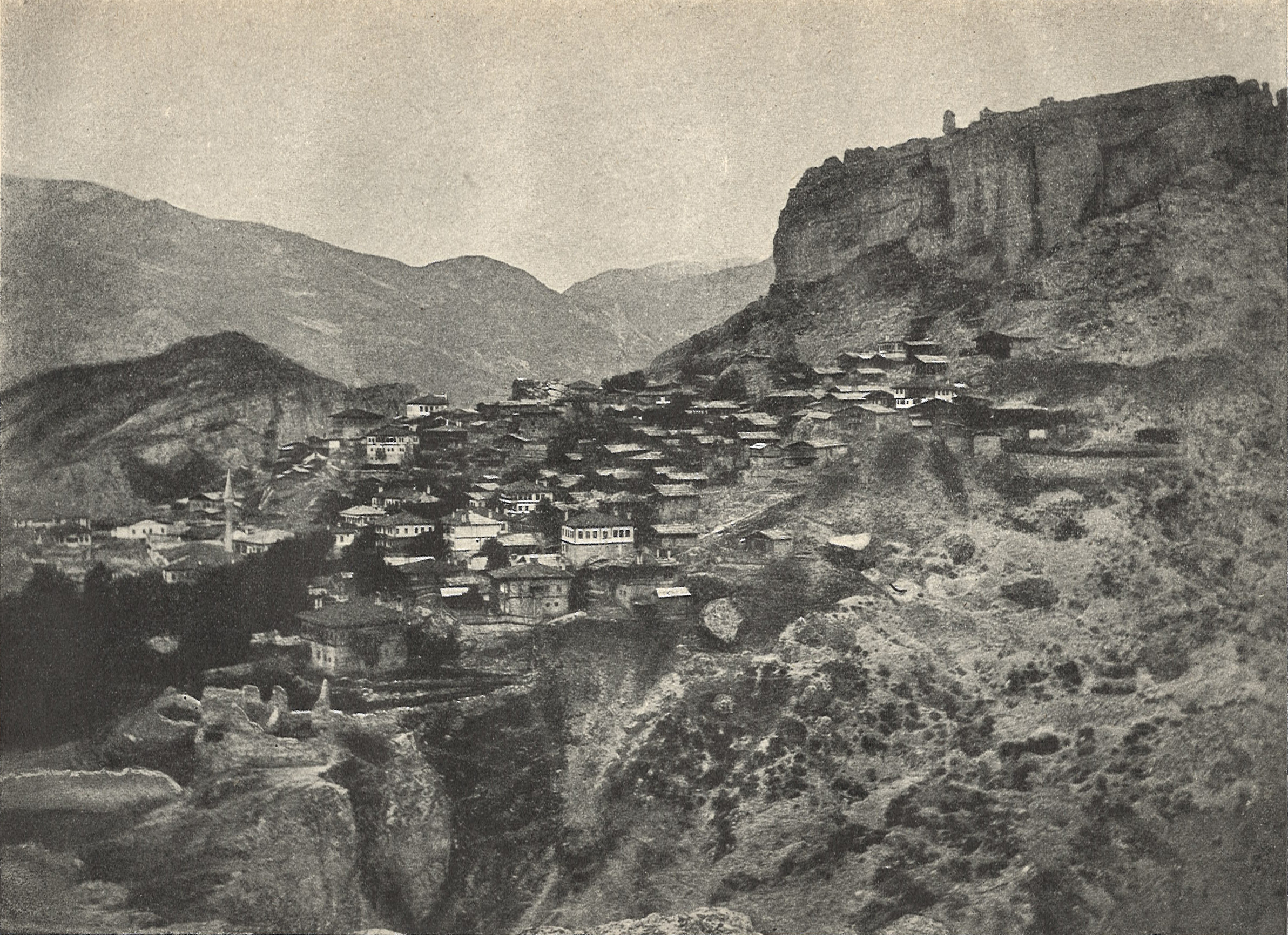 Artanuji, an erstwhile capital of the Georgian Bagratids. Now Ardanuç, Turkey. From Nicholas Marr's dairy of his travels to Shavsheti and Klarjeti (1911).